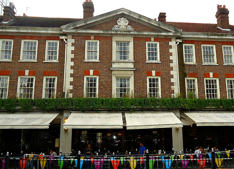 The Hill Road Sutton branch of All Bar One beneath an elegant town centre building, which previously housed part of the Allders department store.